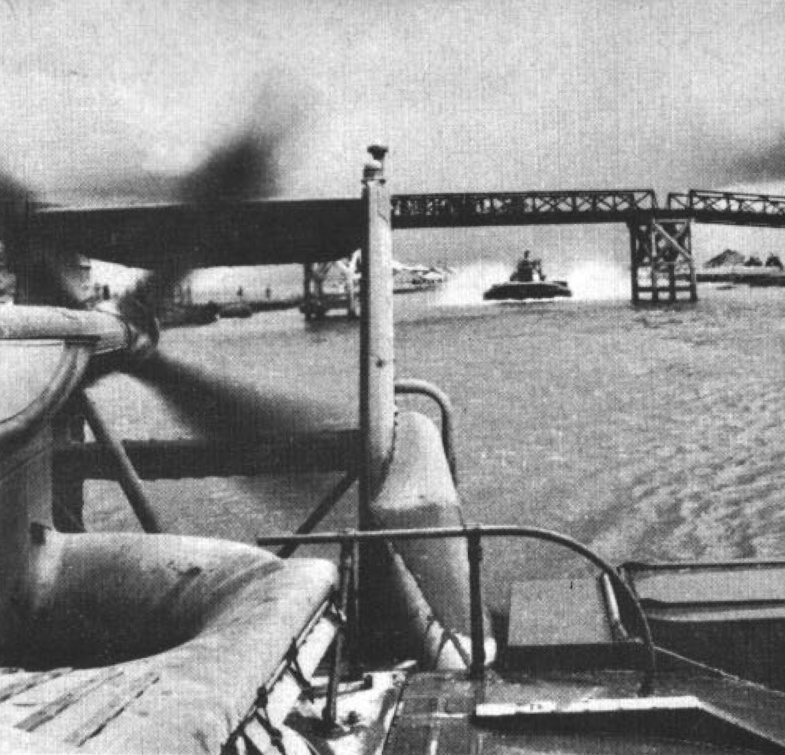 The U.S. Navy Patrol Air Cushion Vehicles returning to their base at Cat Lo, Vietnam, after a 6-day patrol in the Plain of Reeds, circa 1966. The U.S. Navy operated three PACVs.